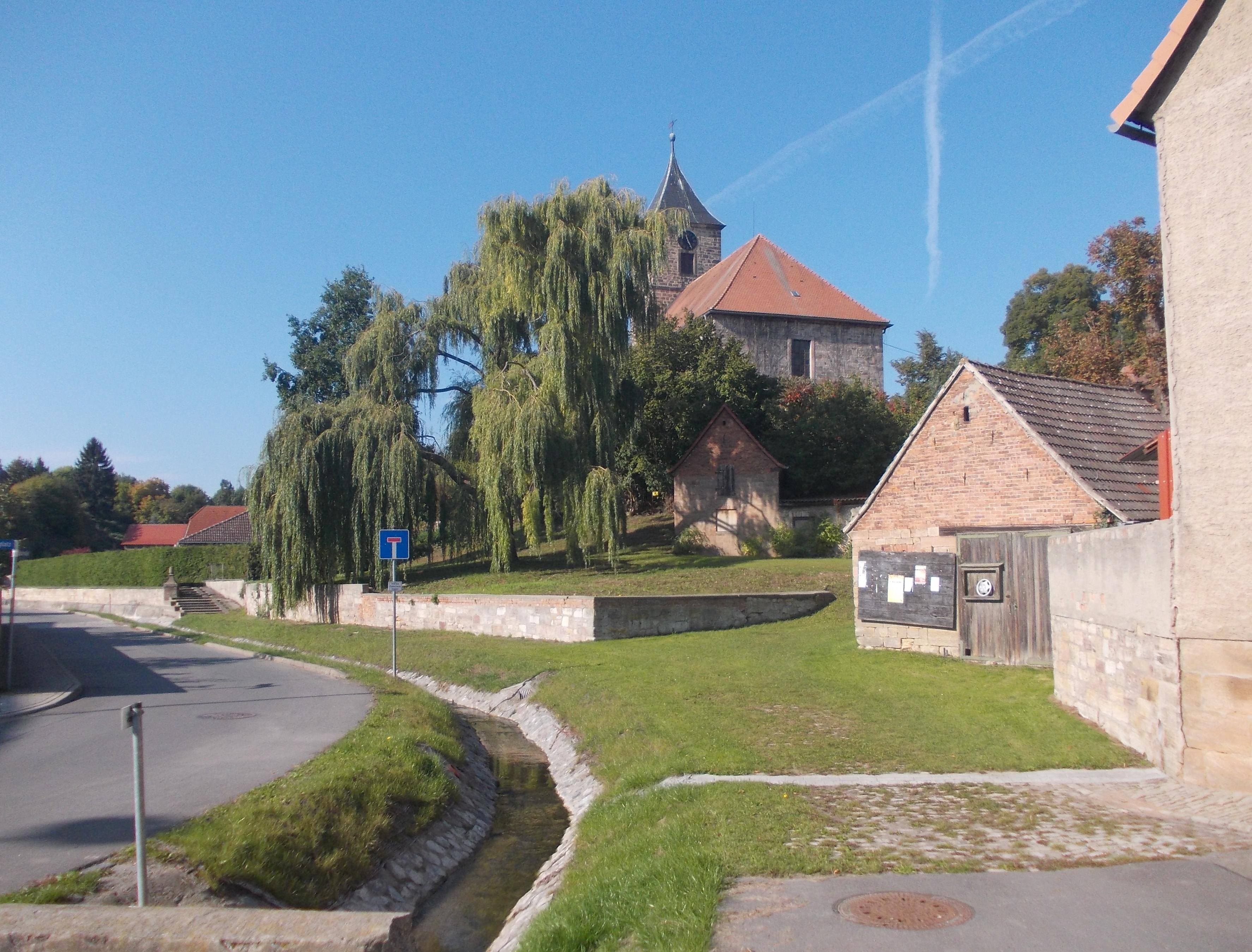 Saints Peter and Paul church in Oberschmon (Querfurt, district: Saalekreis, Saxony-Anhalt) with Schmoner Bach